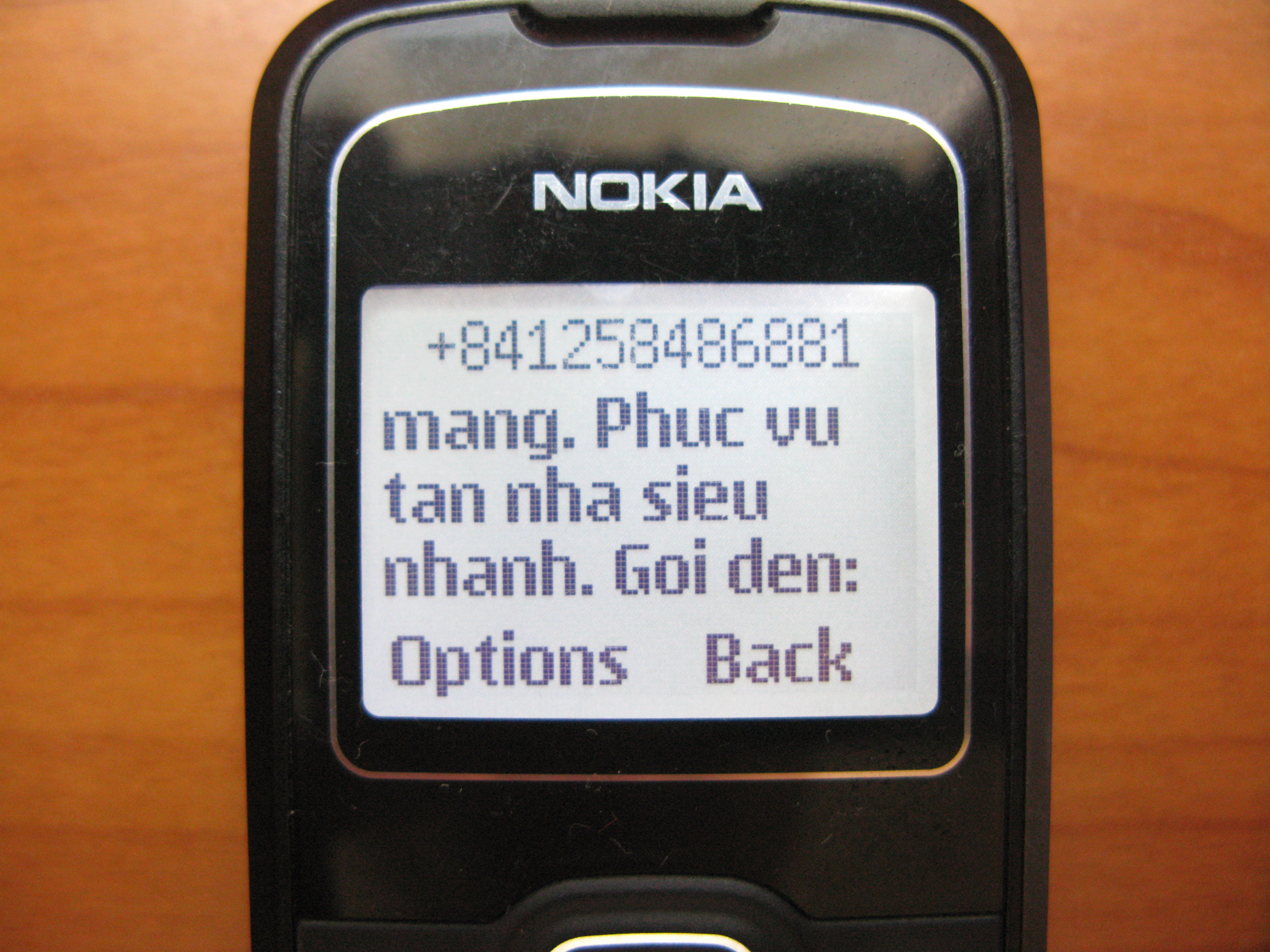 Mobile phone spam in Viet Nam